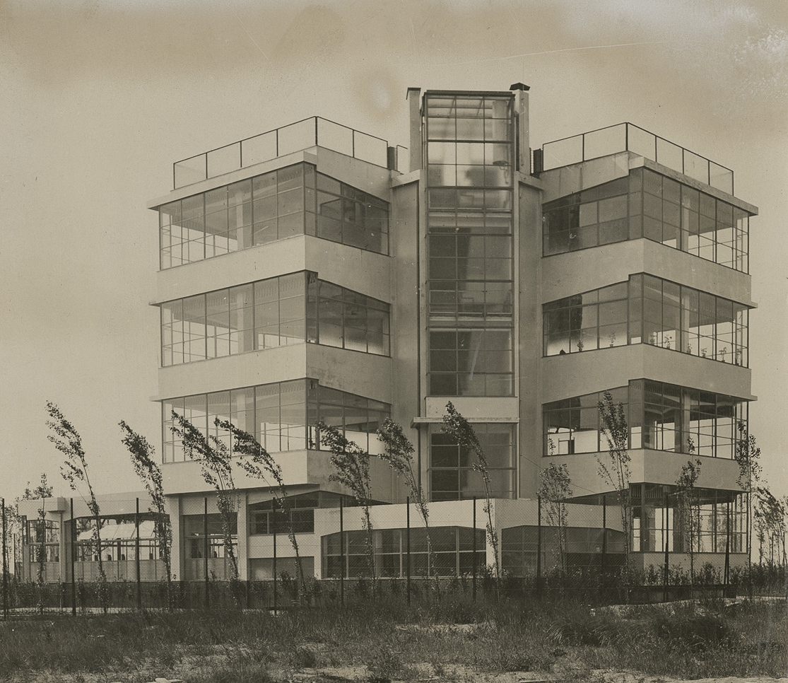 J.Duiker, A.M. Bijvoet, Openluchtschool voor het gezonde kind, Amsterdam, 1927-1928. Collectie NAi. LEPP d28-3 De eerste openluchtscholen verrezen in Nederland rond 1905 buiten de stad. Artsen stuurden lichamelijk en sociaal zwakke kinderen naar een buitenschool aan zee of in de bossen voor een kuur van gezonde voeding, medische zorg, beweging en onderwijs in de openlucht. Vanuit de overtuiging dat als de openlucht gezond is voor zieke kinderen, ontstond het idee dat dit eveneens gezond zou zijn voor gezonde kinderen. Vanuit dit geloof in de preventieve werking ontstonden er rond 1930 ook openluchtscholen voor gezonde kinderen. J.Duiker, A.M. Bijvoet, Open-air school for the healthy child, Amsterdam, 1927-1928. NAI Collection. LEPP d28-3 The first open-air schools in the Netherlands were built outside the cities around 1905. Doctors sent physically and socially fragil children to an open-air school on the coast or in the woods for a cure of healthy food, medical care, physical activity and education in the open air. The conviction that fresh air is healthy for sick children prompted the idea that it would be beneficial for healthy children as well. Proceeding from this belief in the preventive effect, around 1930 open-air schools were established for healthy children as well.